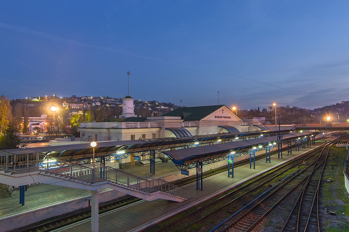 Sevastopol railway station